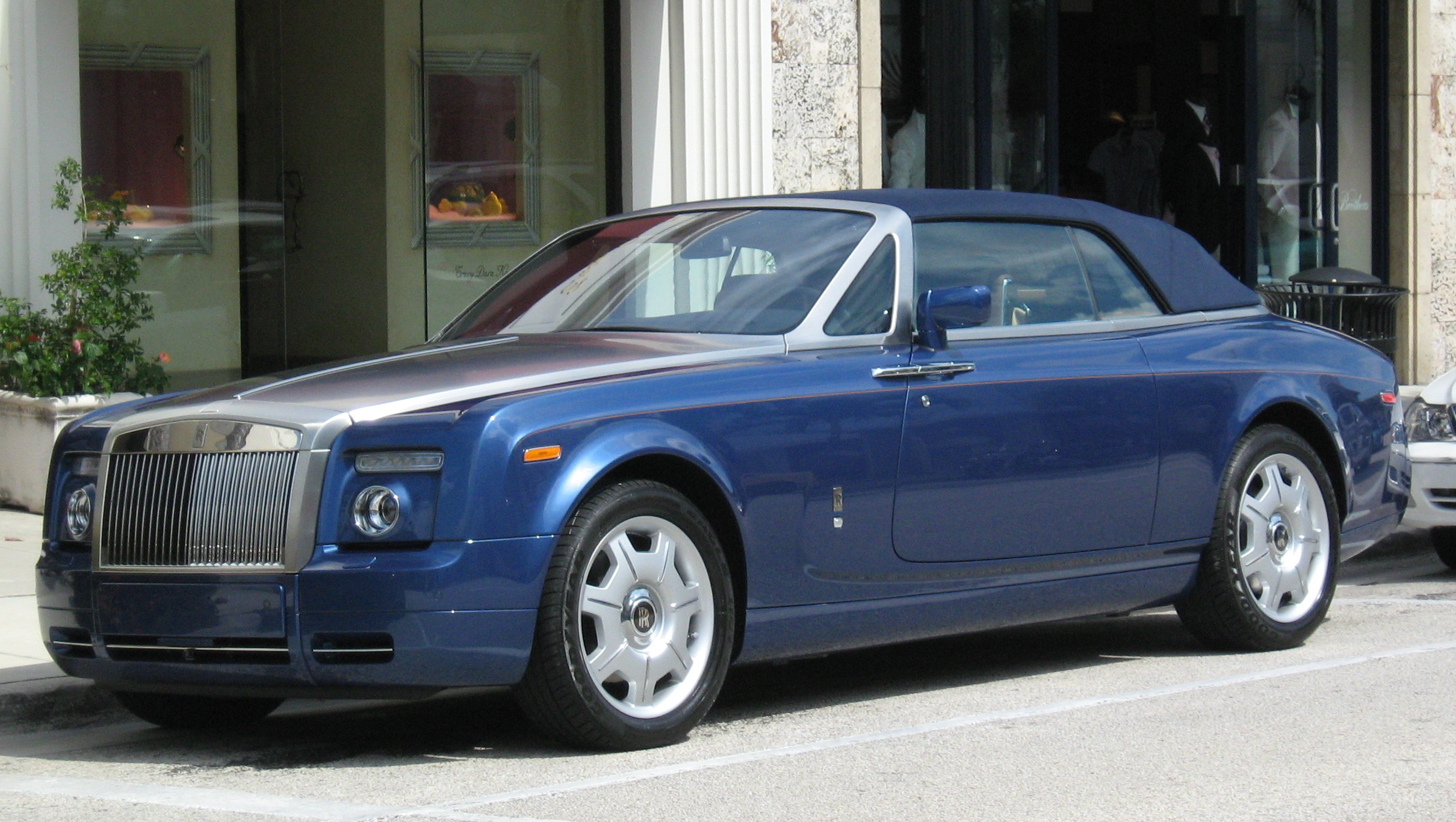 Rolls-Royce Phantom Drophead Coupé (blue) on Worth Avenue in Palm Beach, Florida.